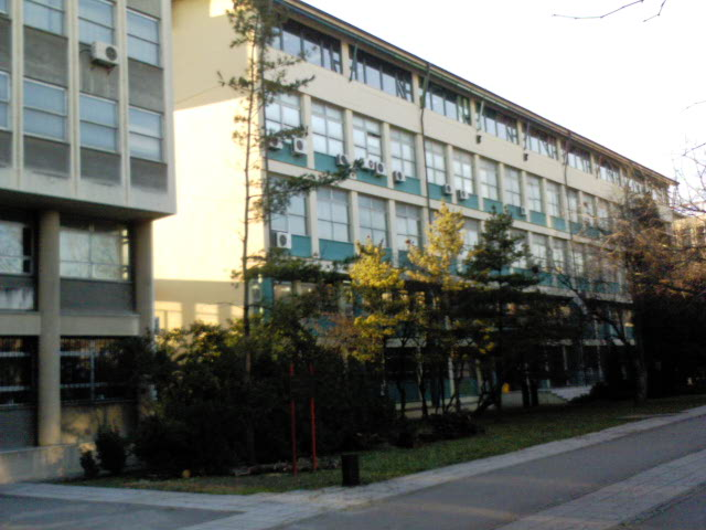 Main building of Faculty of Technical Sciences